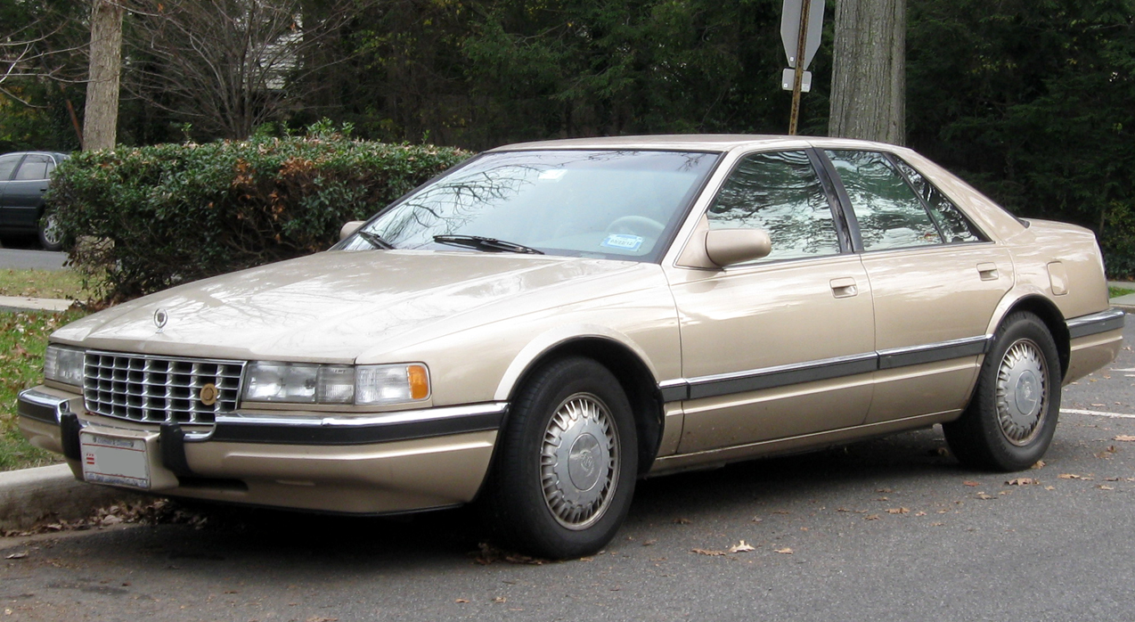 1992-1994 Cadillac Seville photographed in Washington, D.C., USA.